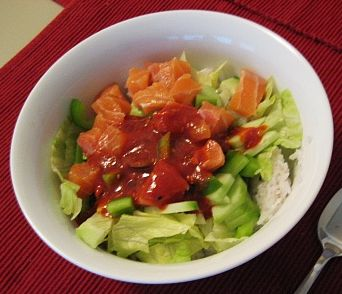 Hoedeopbap with salmon picture. I made the dish and took the picture by myself.